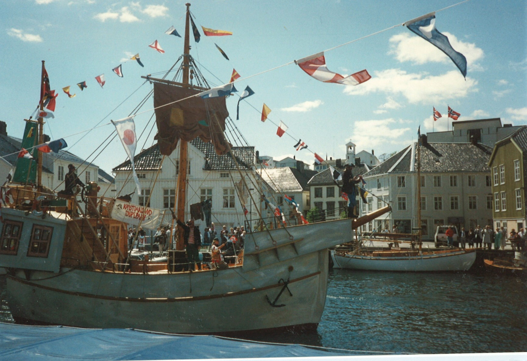 The pirat ship "Klara" in Arendal 17th of May 1990.